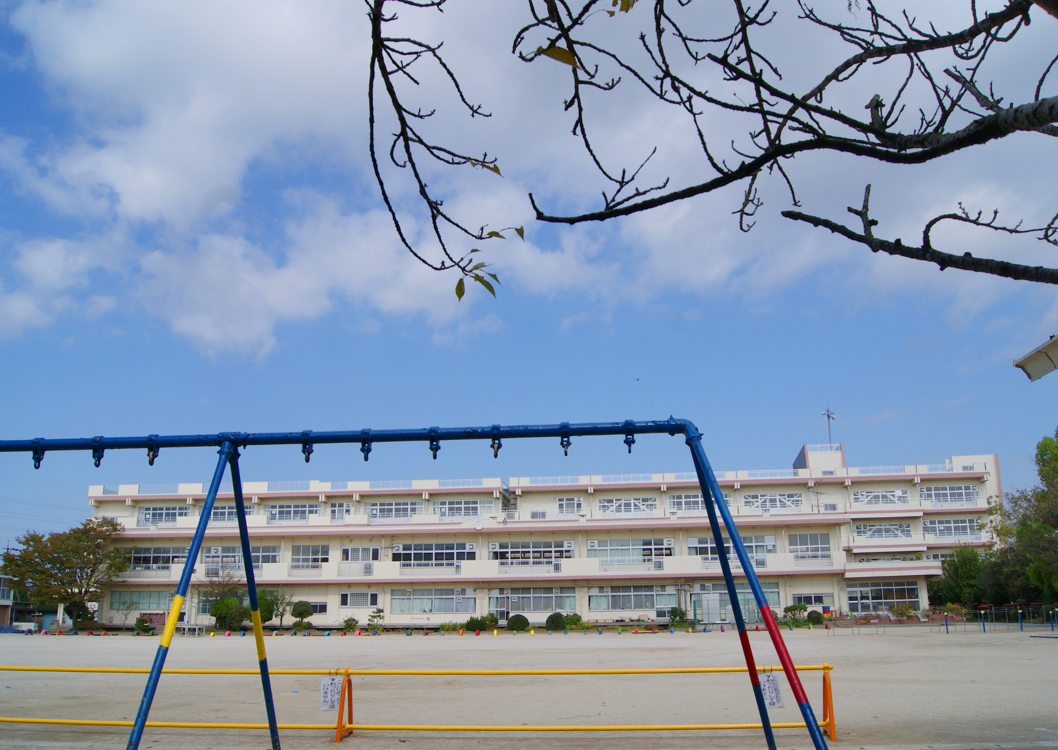 Seki Elementary school in Yoshikawa, Saitama, Japan.jpg